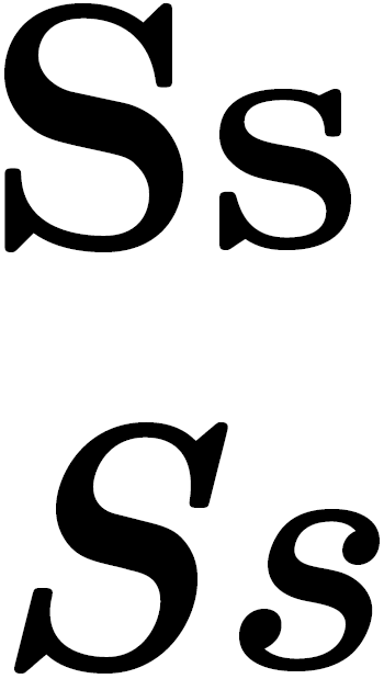 Latin letter S